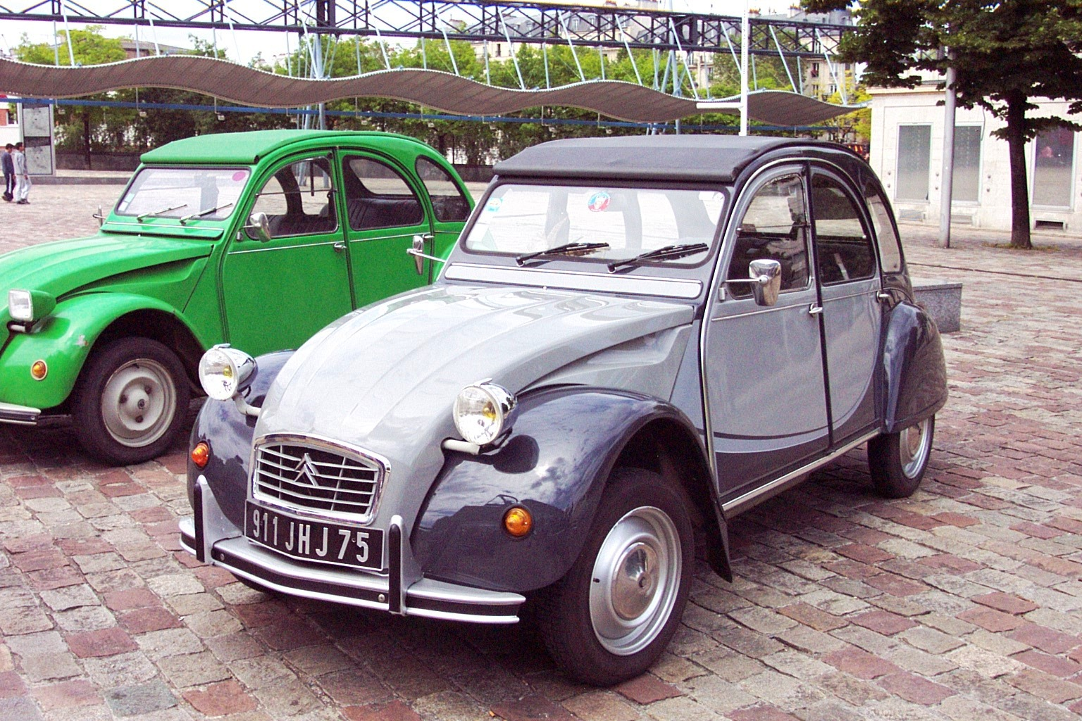 2cv Charleston Gris Cormoran/ gris nocturne